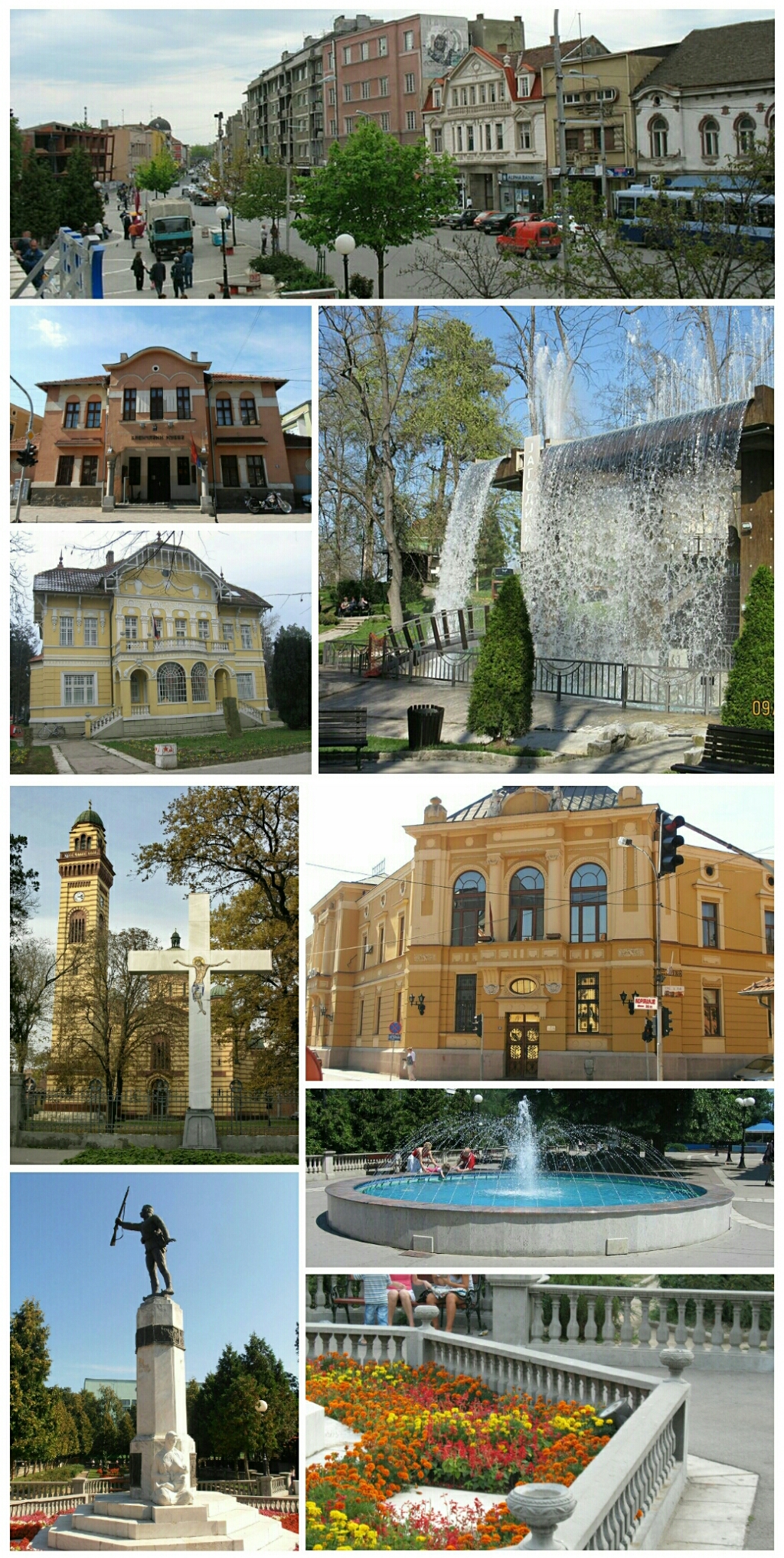 Jagodina- Photomontage (City Center, Museum of Jagodina, Museum of Naïve and Marginal Art, Artificial waterfall, Church of St. Peter and Paul, Courthouse, Fountain in downtown, Monument on the town square, Town square)